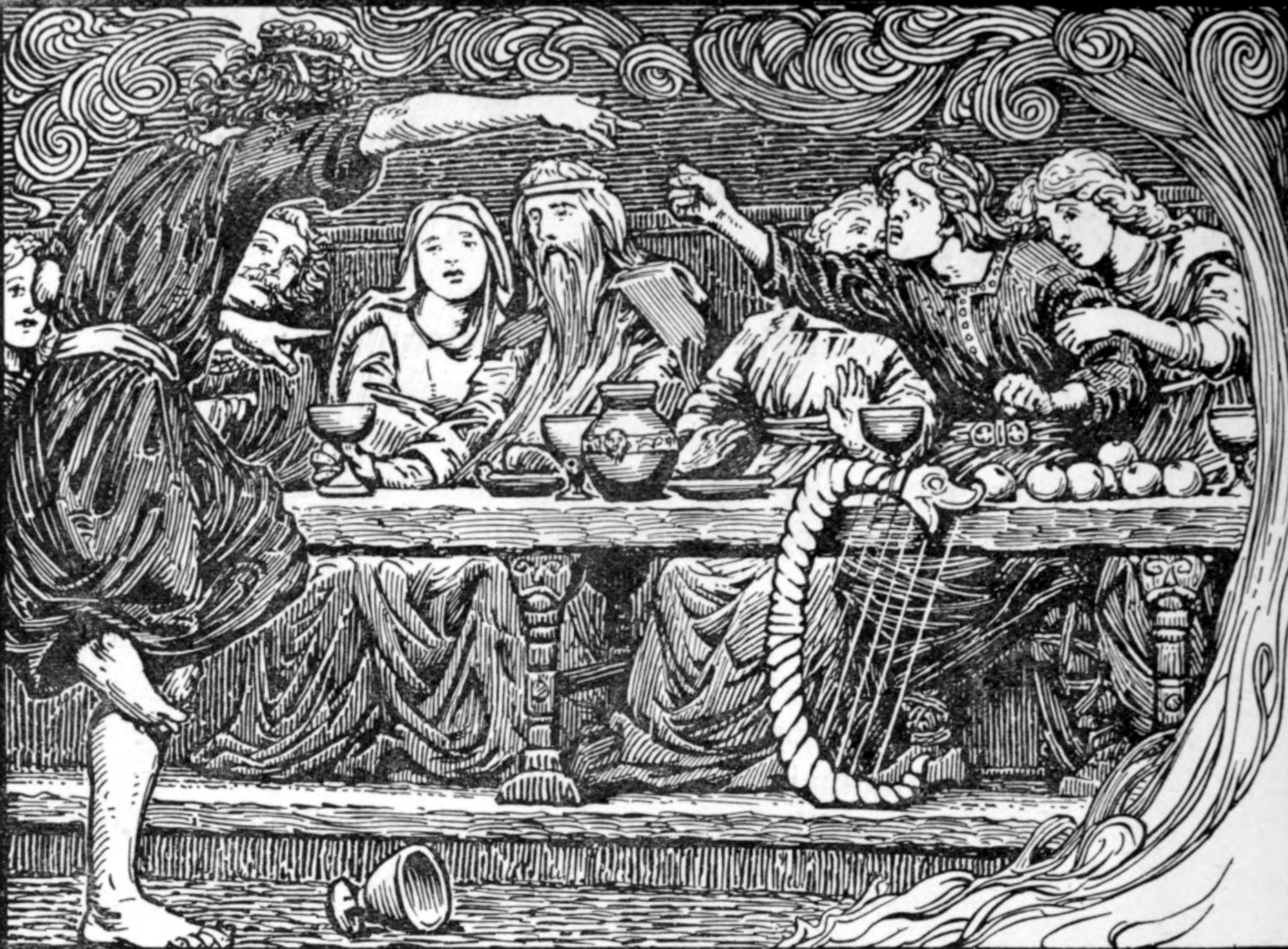 An illustration to Lokasenna. The list of illustrations in the front matter of the book gives this one the title Loki taunts Bragi.